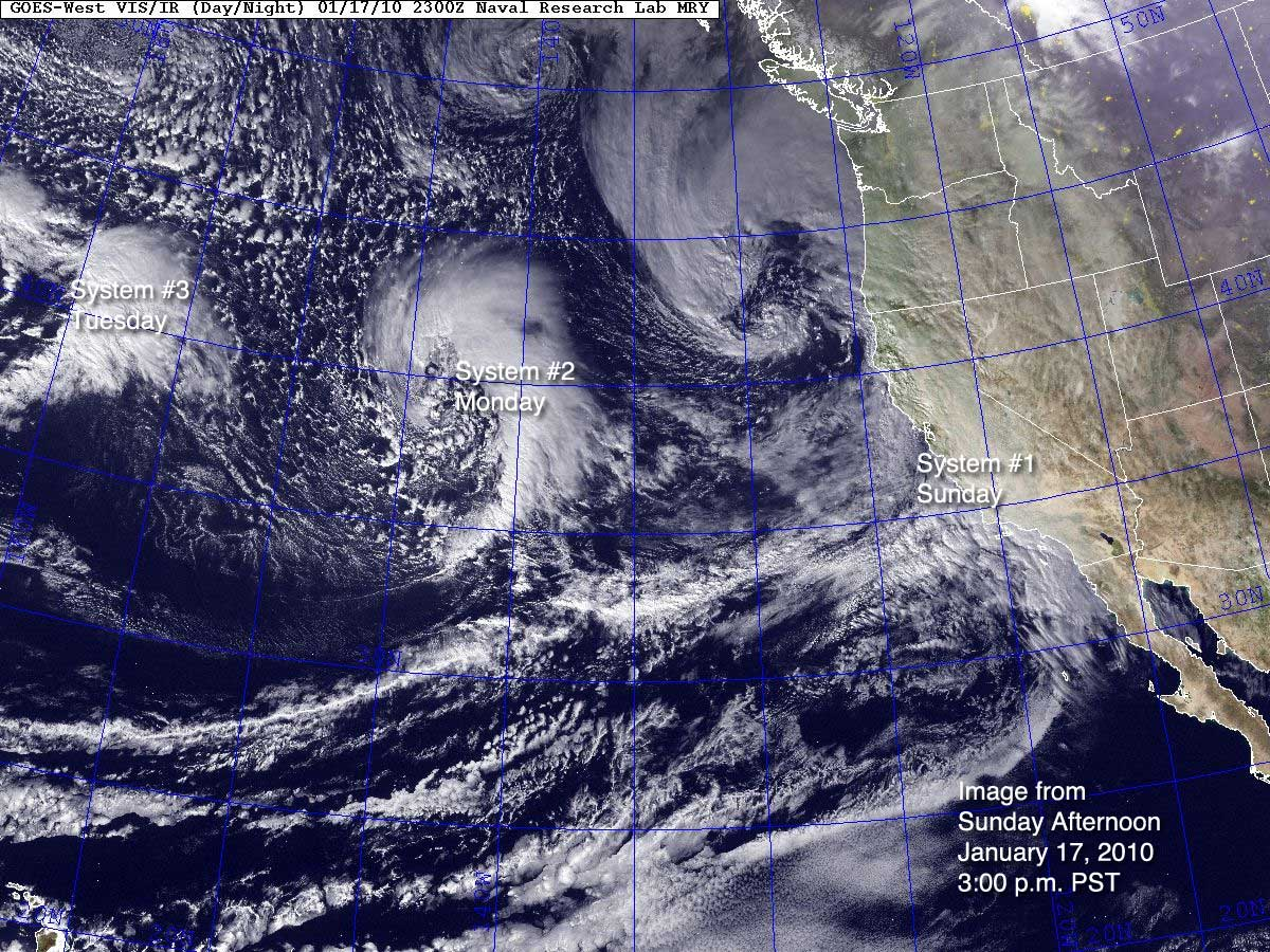 The first wave of January 2010 El Nino storms. The 1st, 2nd, 3rd storm, and and upper-level low can all be seen in this satellite photo.